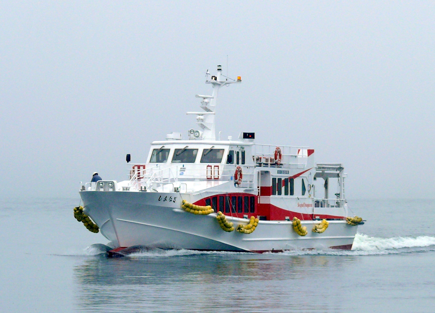 Seapal Onagawa shimanagi Sailing(Japan).